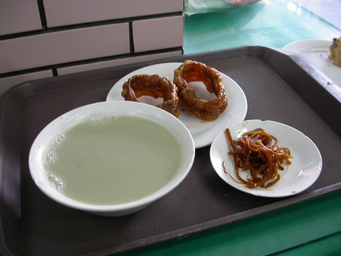 douzhi,a traditional Chinese food,popular in Beijing